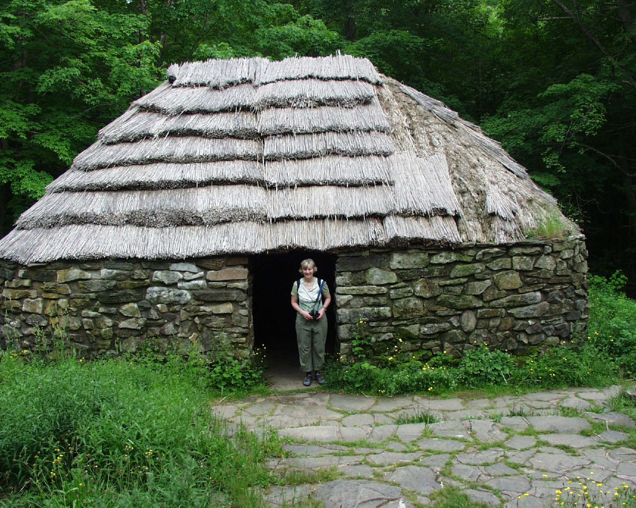 Reproduction of a Scottish tenant farmer's hut per instructions of original landowner.